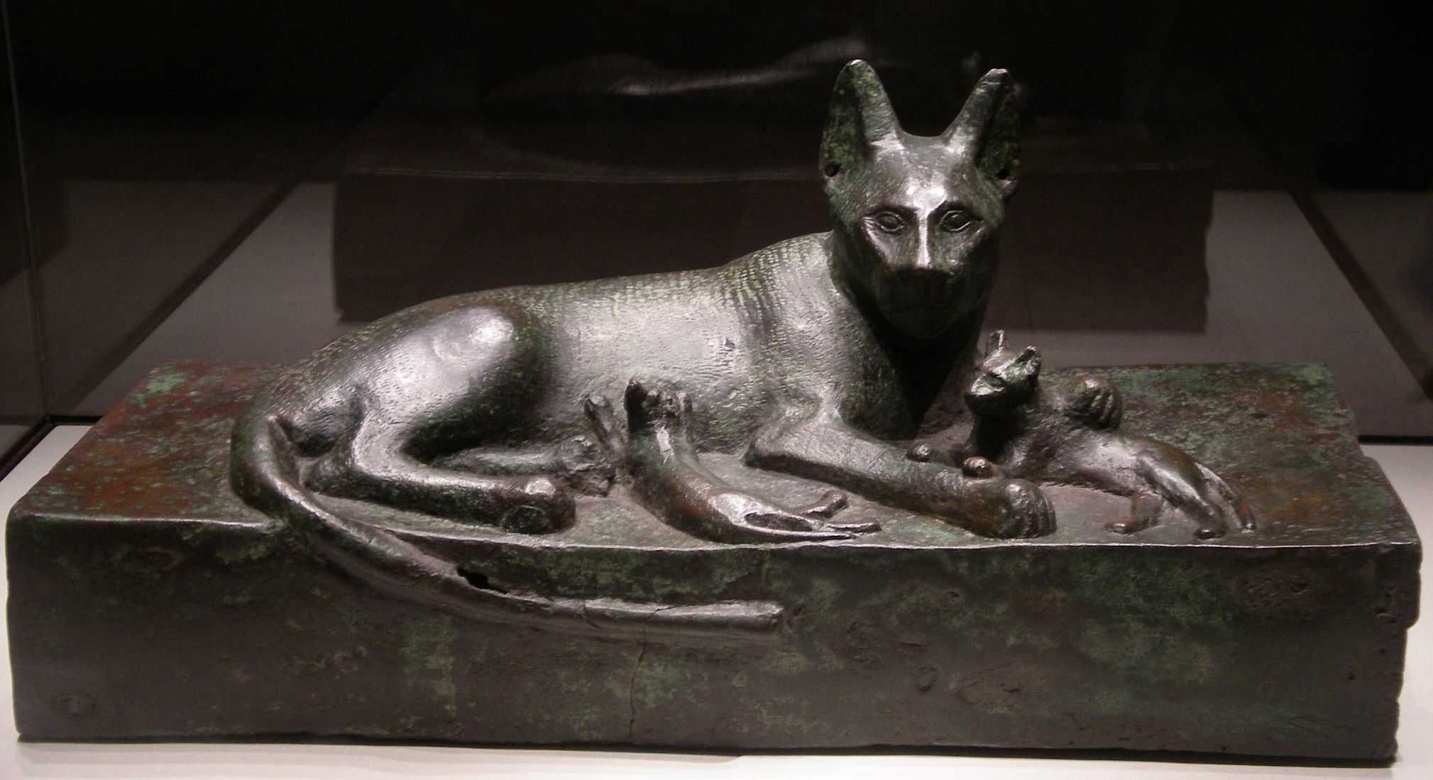 A Saite 26th Dynasty period (664-525 BC) bronze art work of an Egyptian cat playing with one of her kittens and feeding another. The goddess Bastet, which had a cat’s head, was one of the many gods in Egypt’s polytheistic religion and had her own temple in Bubastis, in the Nile delta. [Gulbekian Museum; Inv. No.21]